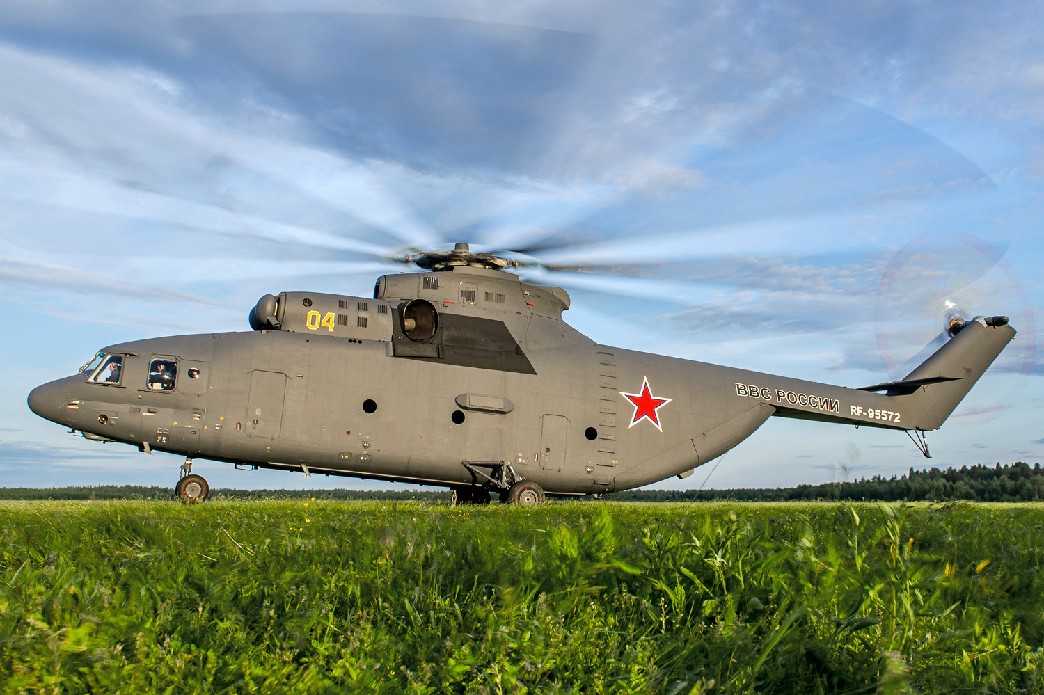 Russian Air Force Mil Mi-26 at Torzhok